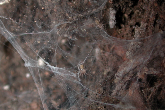 Euagrus sp. spiderlings (Dipluridae) from the "sky island" mountains of Arizona and New Mexico.